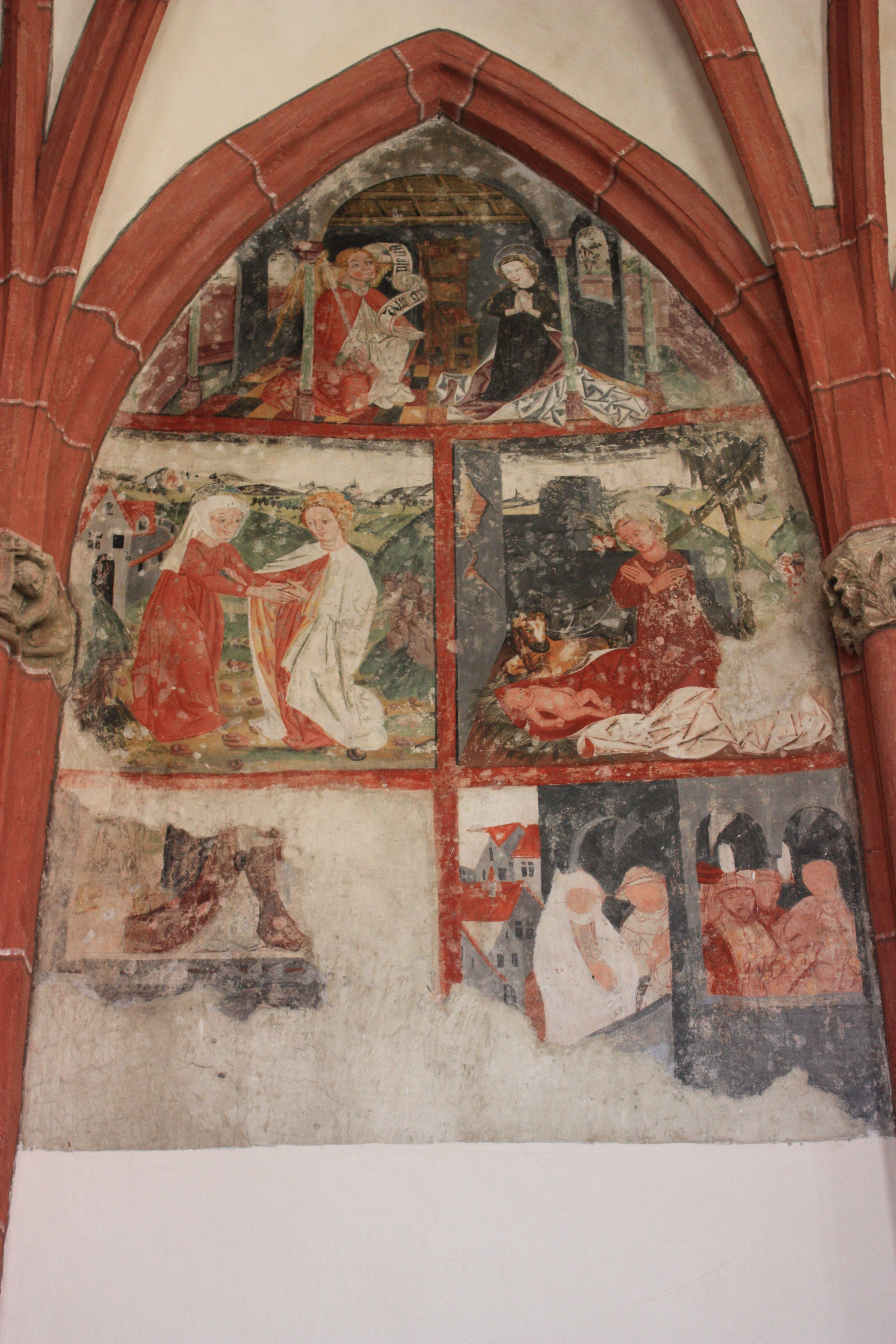 Parish church "Maria Magdalena": Life of Mary Street:Kirchengasse Community:Völkermarkt